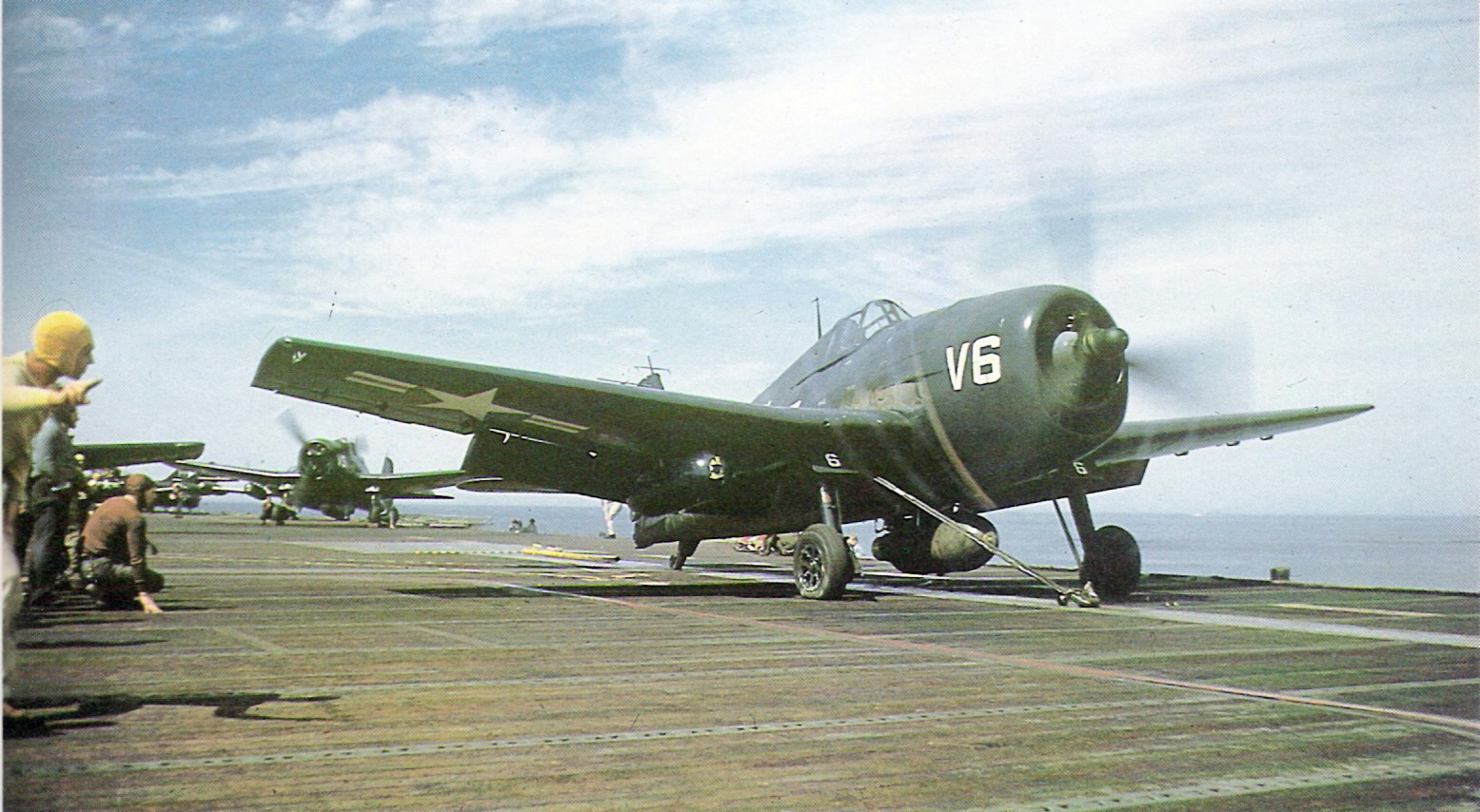 Grumman F6F-5K Hellcat drones are launched from the port catapult of the U.S. aircraft carrier USS Boxer (CV-21) during the Korean War in August 1952. The F6F-5Ks were used as guided "missiles" and were guided by Douglas AD-2D Skyraider drone control planes, but the attacks produced only meagre results. Note the 407 kg (1.000 lb) bomb underneath the Hellcats.